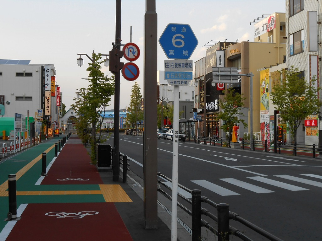 Miyagi prefectural road 6th. Ishinomaki, Miyagi prefecture, Japan.